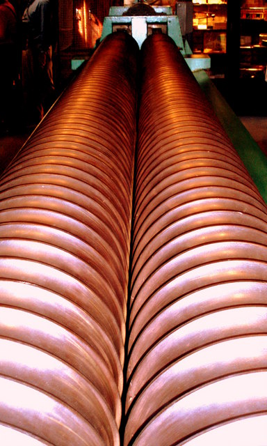 Marble Machine, at House of Marbles This machine, built in 1982 in the USA, is the largest of its type in its day. It has travelled over 10,000 miles and made 15 million marbles! A good insight into just how industrial toy manufacture can be.